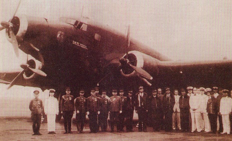 Italian Savoia-Marchetti SM.75 GA RT long-range cargo aircraft and its crew photographed with Japanese officials during its flight to East Asia in July 1942